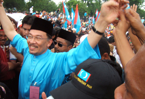 Datuk Seri Anwar Ibrahim waving to his supporters when he arrived at the nomination centre during the Pematang Pauh by-election